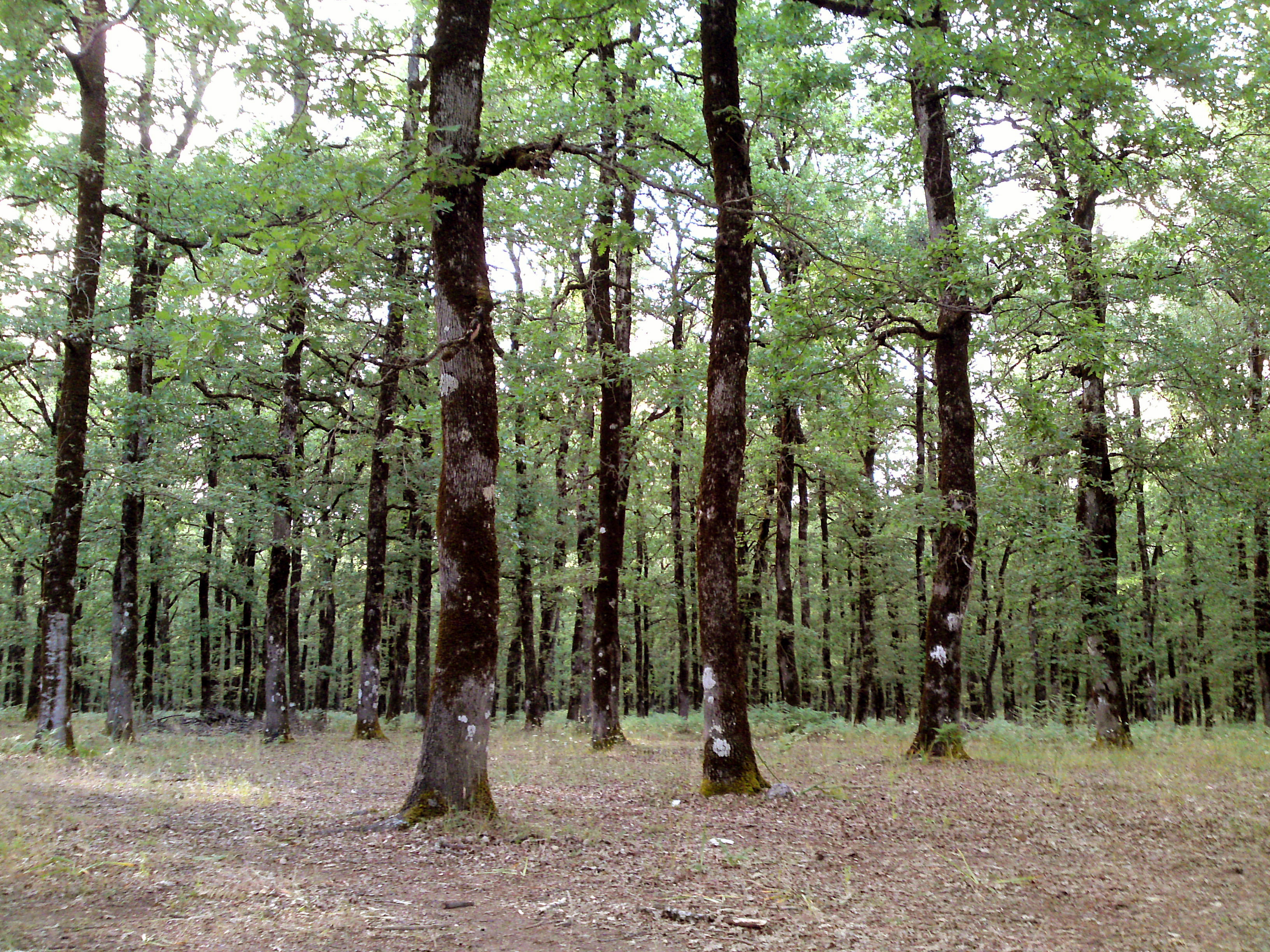 The Foloi oak forest in south western Greece.